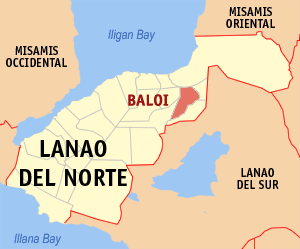 Map of the Lanao del Norte showing the location of Baloi